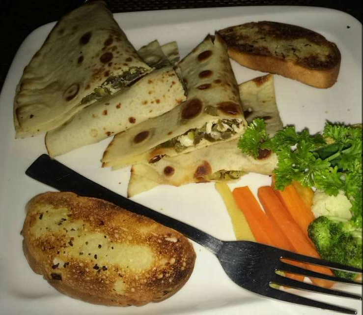 quesadillas